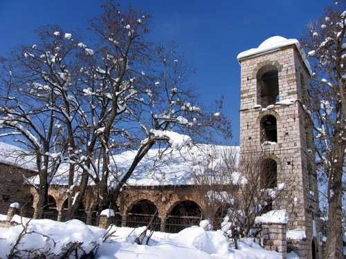 Moscopole/Voskopoja church of Saint Nicolaus